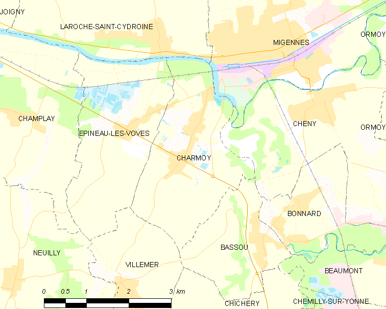 Map of French municipality Charmoy